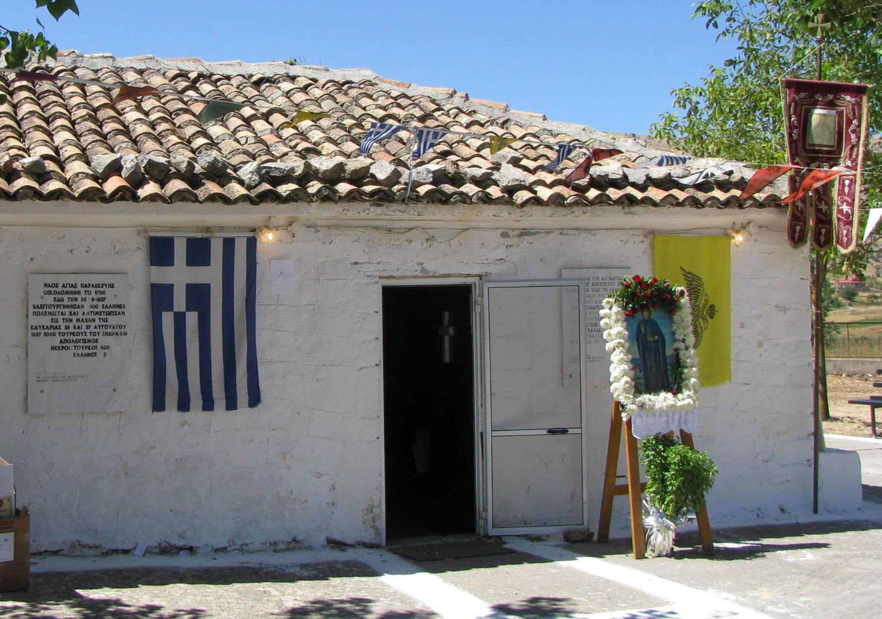 The historic old church of Agia Paraskevi ( Ἁγία Παρασκευῆ) in Rakita. It is dedicated to the holy and glorious Virgin-Martyr Saint Paraskevi.